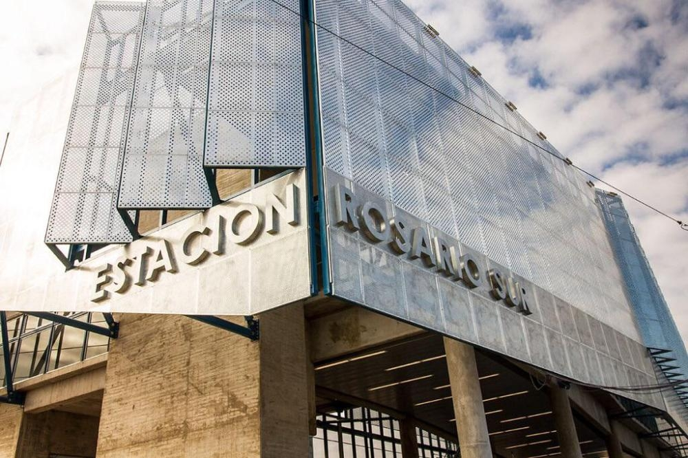 Rosario Sur train station, inaugurated in July 2015.